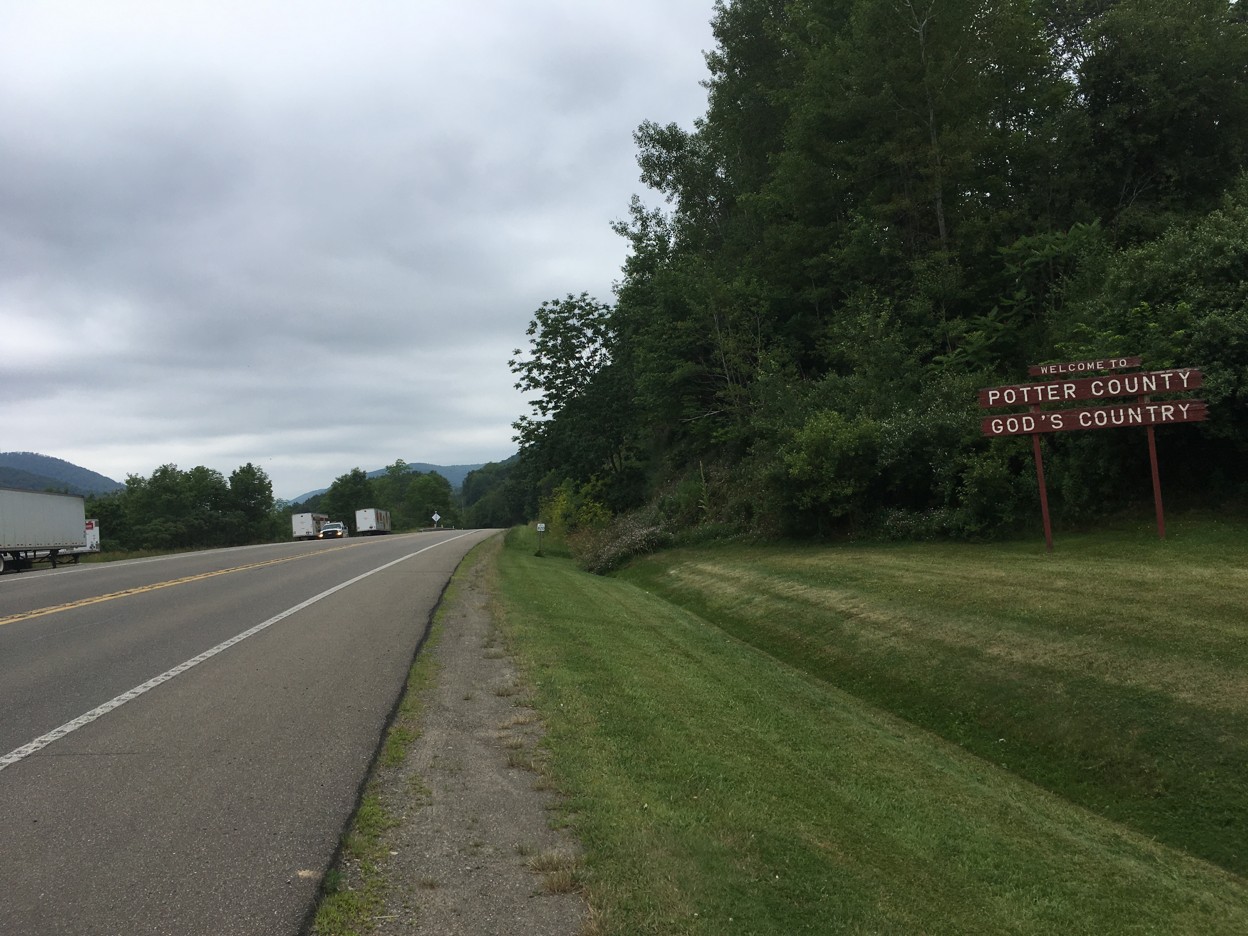 U.S. Route 6 westbound entering Potter County, Pennsylvania east of Galeton.